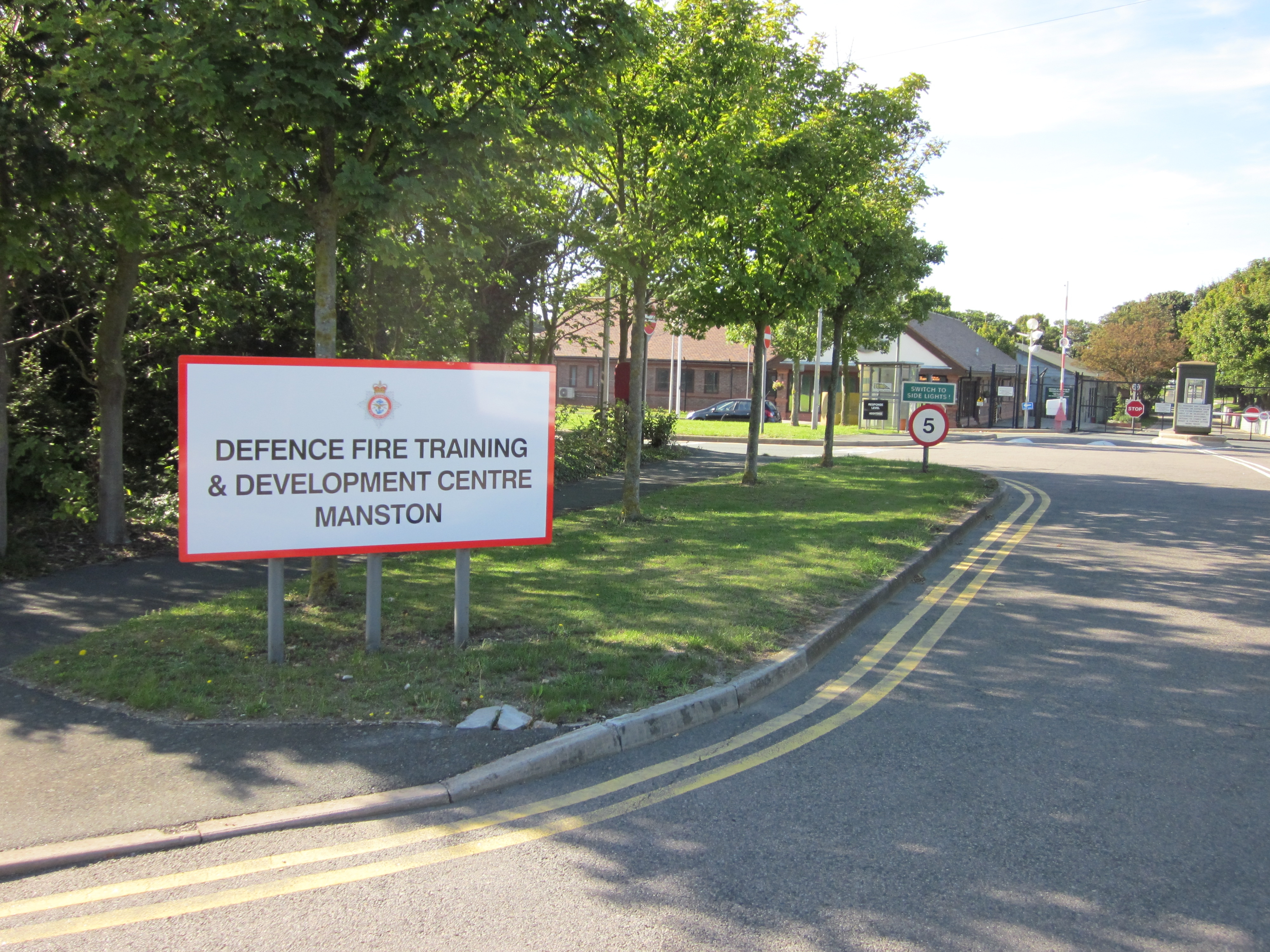 Entrance to the Defence Fire Training and Development Centre at Manston, Kent, UK. It is also home to the Manston Fire Museum.